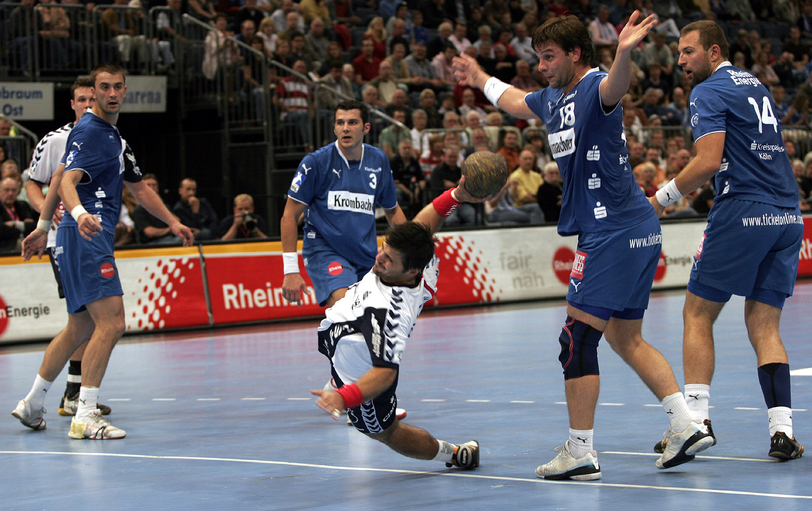 Ljubomir Vranjes, Swedish handball player of SG Flensburg-Handewitt, in the Kölnarena during the gane VfL Gummersbach - SG Flensburg-Handewitt